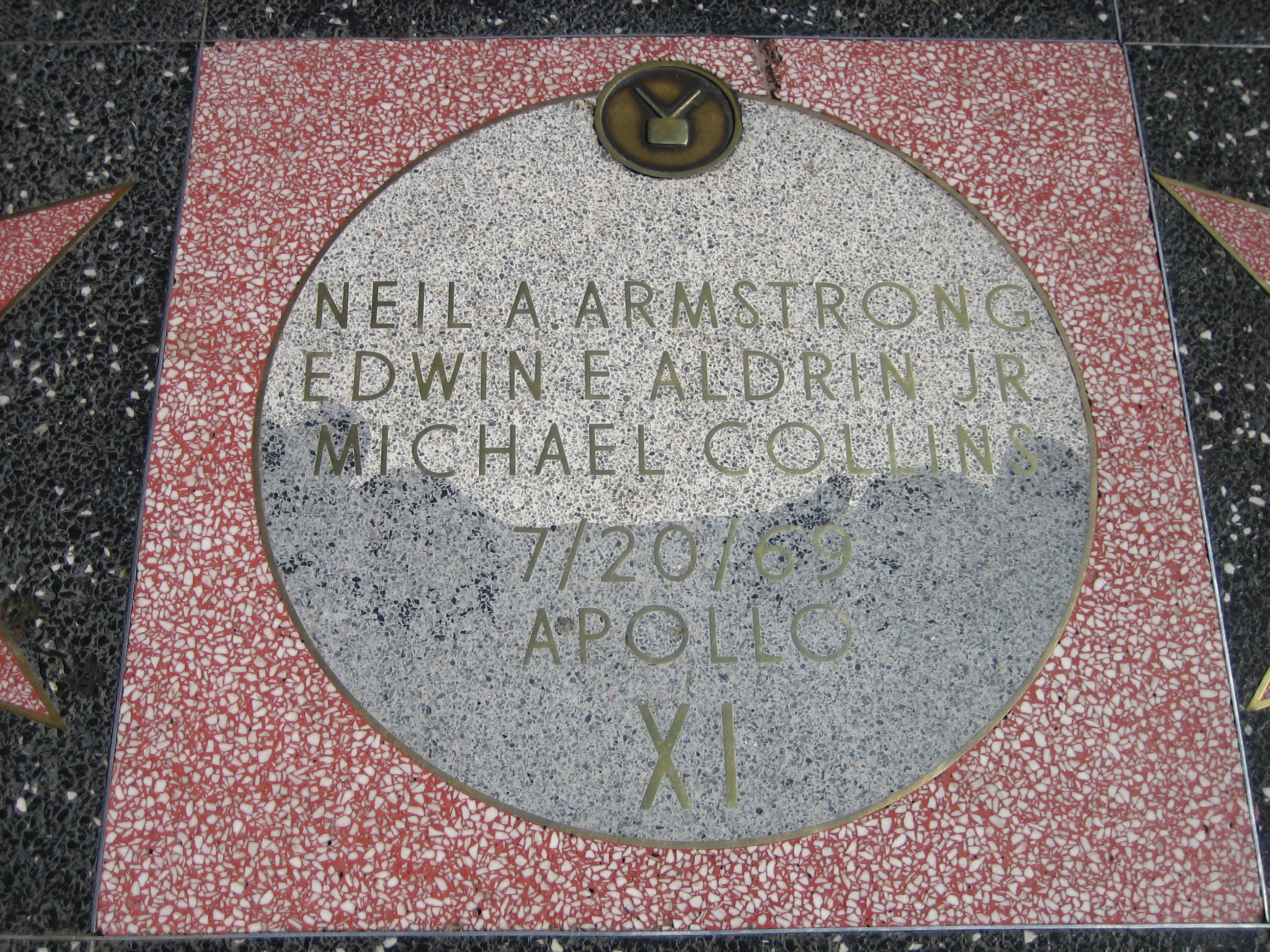 One of four identical moons honouring the crew of Apollo XI at the corner of Hollywood and Vine on the Hollywood Walk of Fame. (original description)